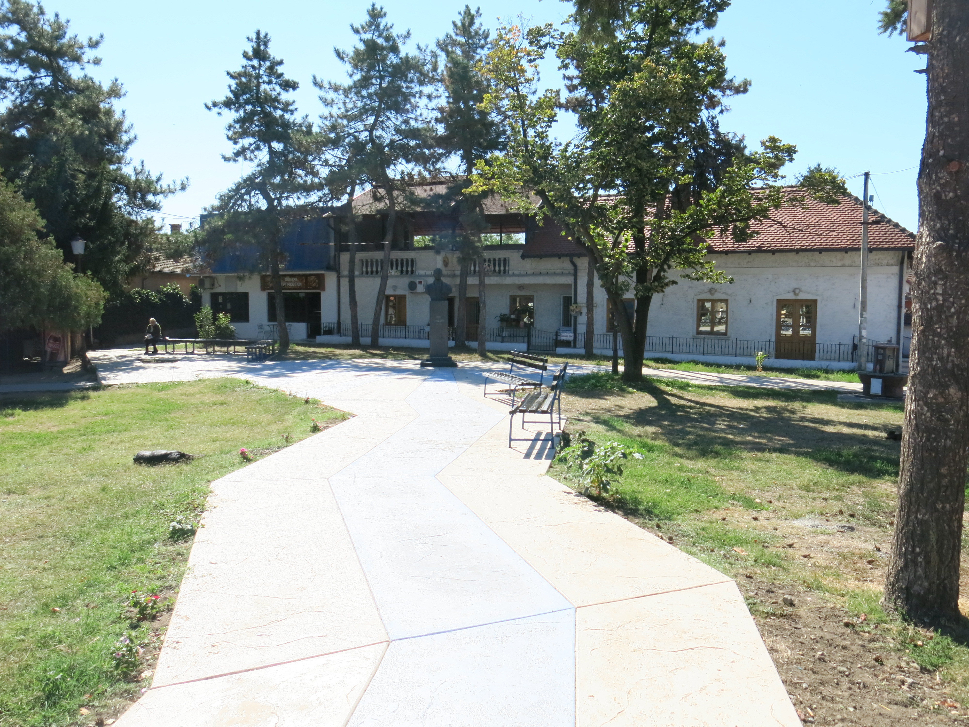 Grocka, Square in the city centar